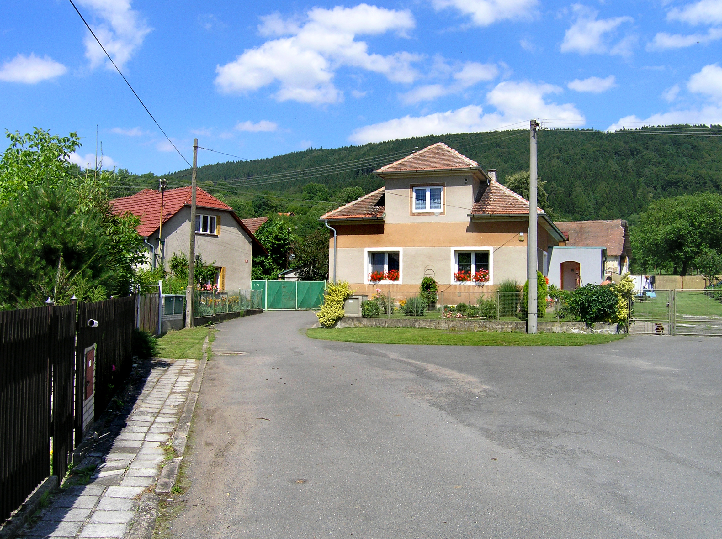 Common in Závratec village, part of Třemošnice, Czech Republic